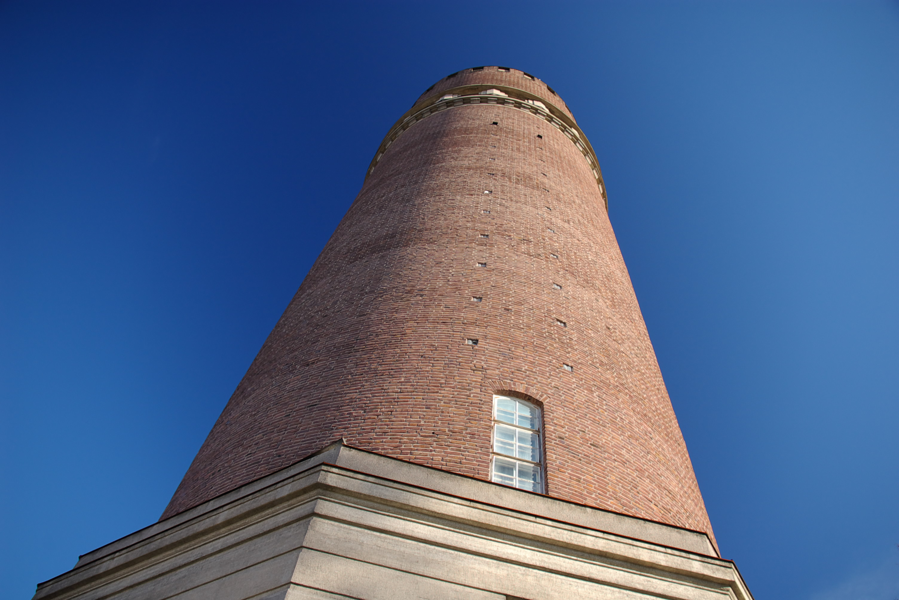 Jakobstad water tower in Finland